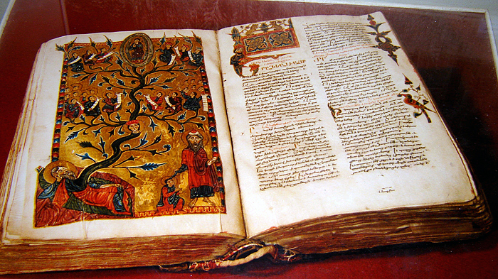 Manuscript of Gladzor University, 13-14th century, village Vernashen, Vayots Dzor, Armenia, 10